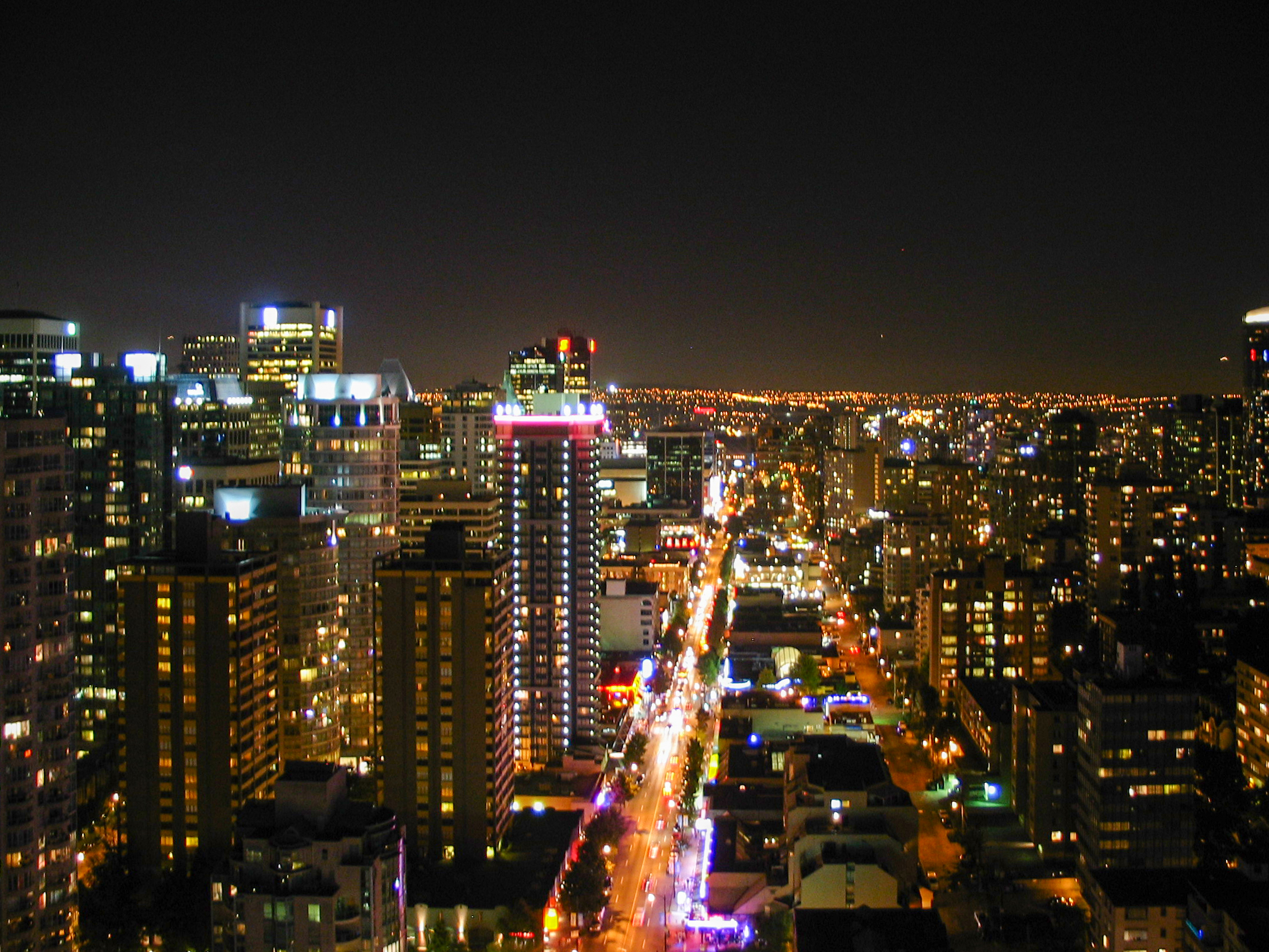 Robson Street at night, Vancouver, BC, Canada